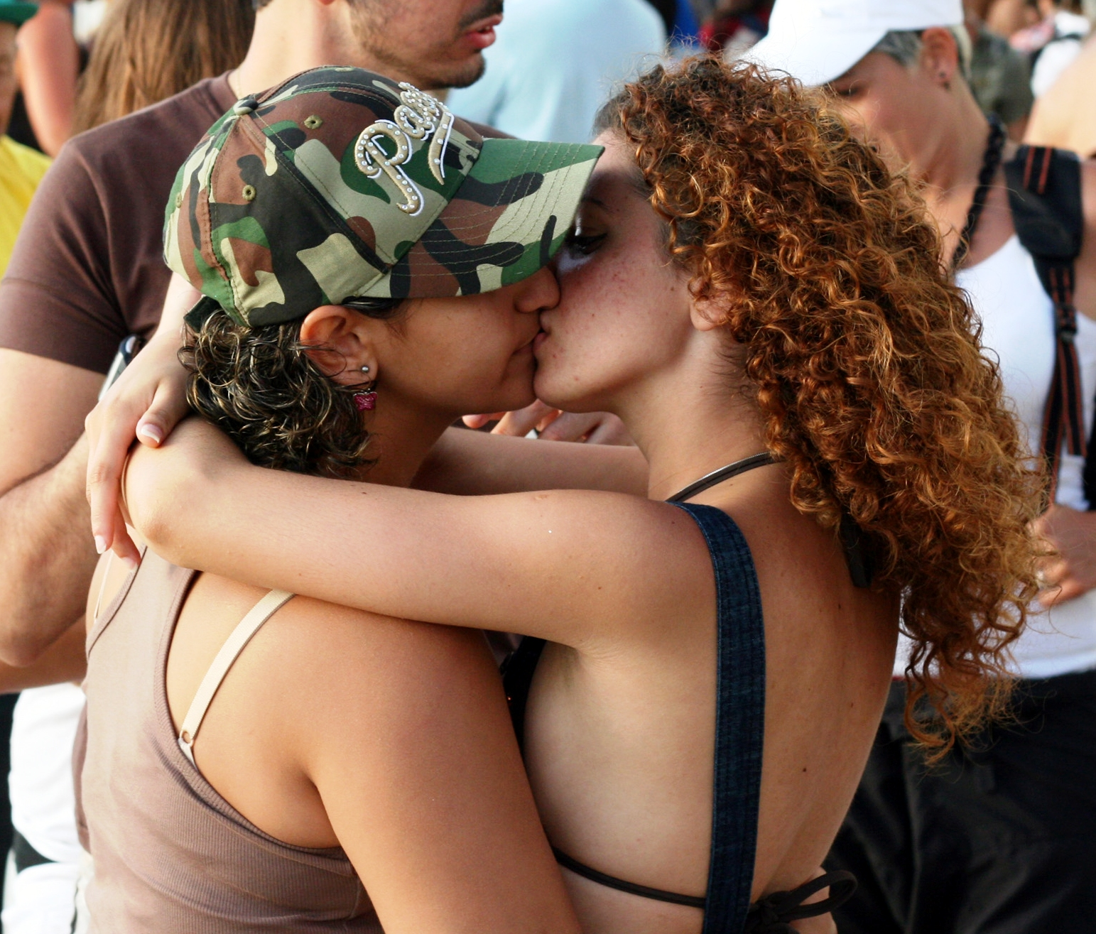 Cropped and autocorrected version of a previous image.